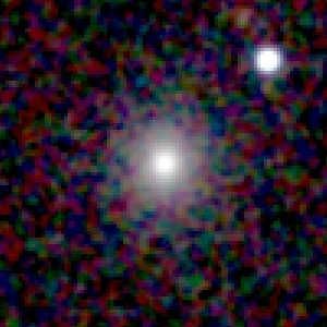 Galaxy NGC 409